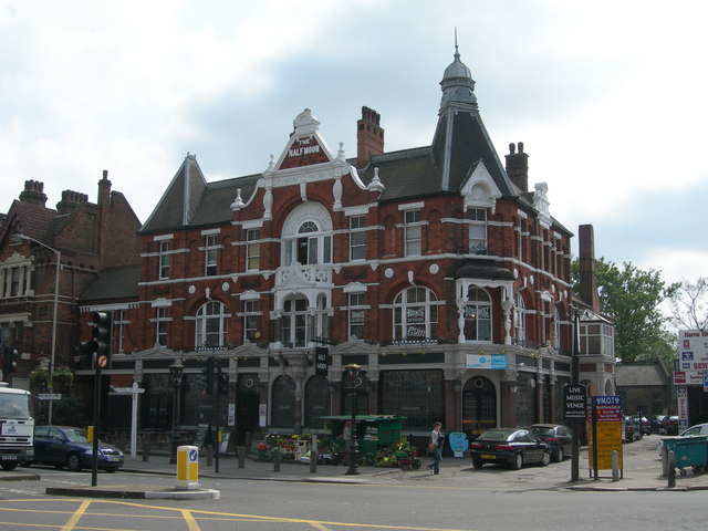 The Half Moon, Half Moon Lane. This ornate building has a pub downstairs and a gym upstairs.